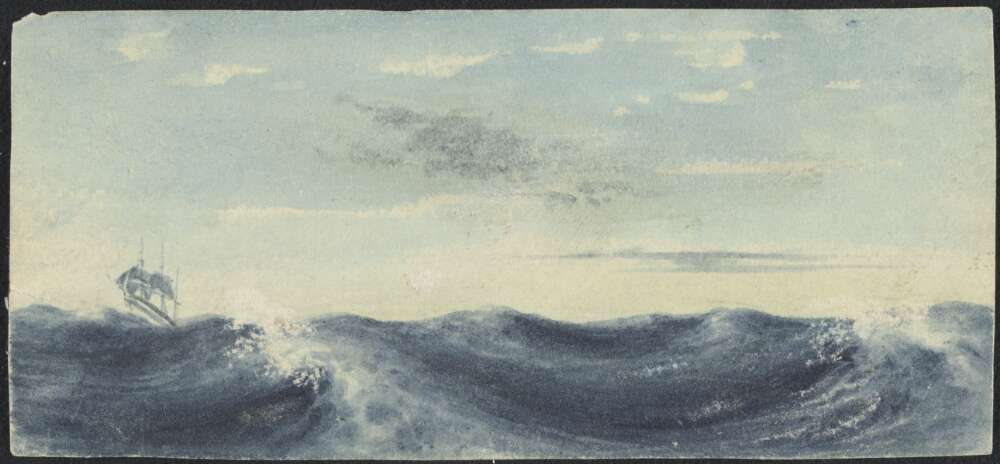 Illustration of the Africaine on its voyage as part of the first fleet to South Australia in 1836